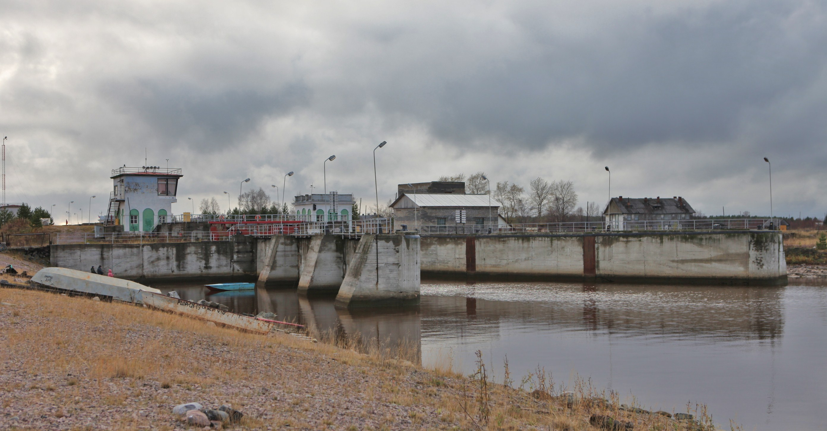 Belomorsk, Karelia, Russia, The Stalin White Sea – Baltic Sea Canal.